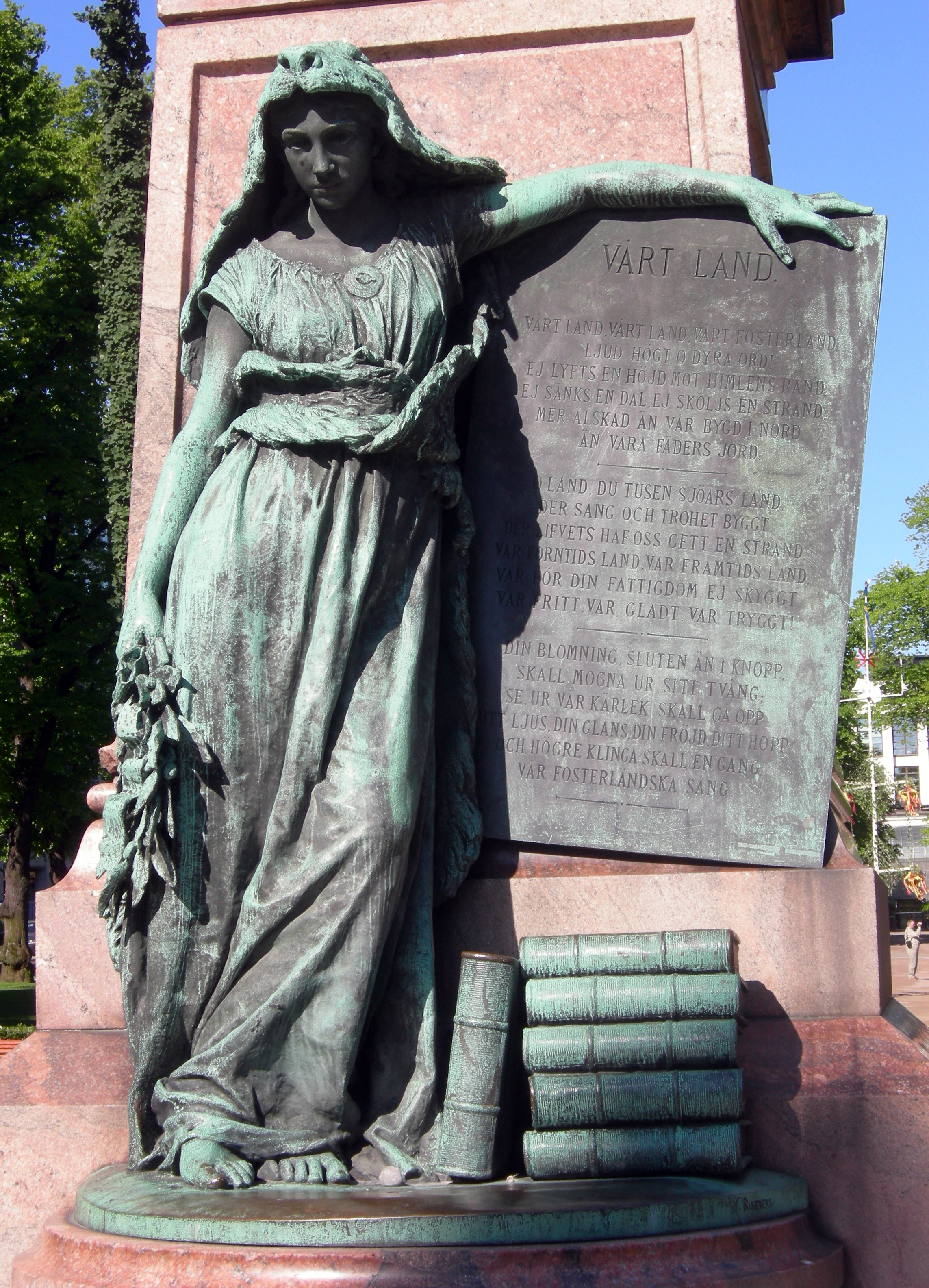 The Swedish lyrics to Finland's national anthem "Vårt land" (Finnish: Maamme) depicted on the foundation of the statue of its writer Johan Ludvig Runeberg in the Esplanadi Park, Helsinki, Finland. Sculpted by Walter Runeberg (1838–1920), son of Johan Ludvig Runeberg.